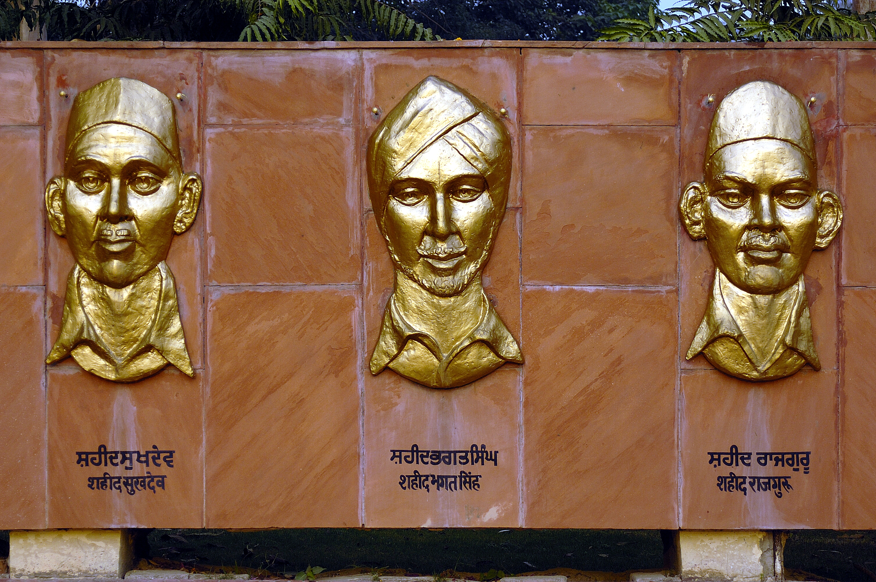 The National Martyrs Memorial built in 1968 is a memorial for Bhagat Singh, Sukhdev and Rajguru, who were cremated here in 1931 after their execution at the Lahore Jail.